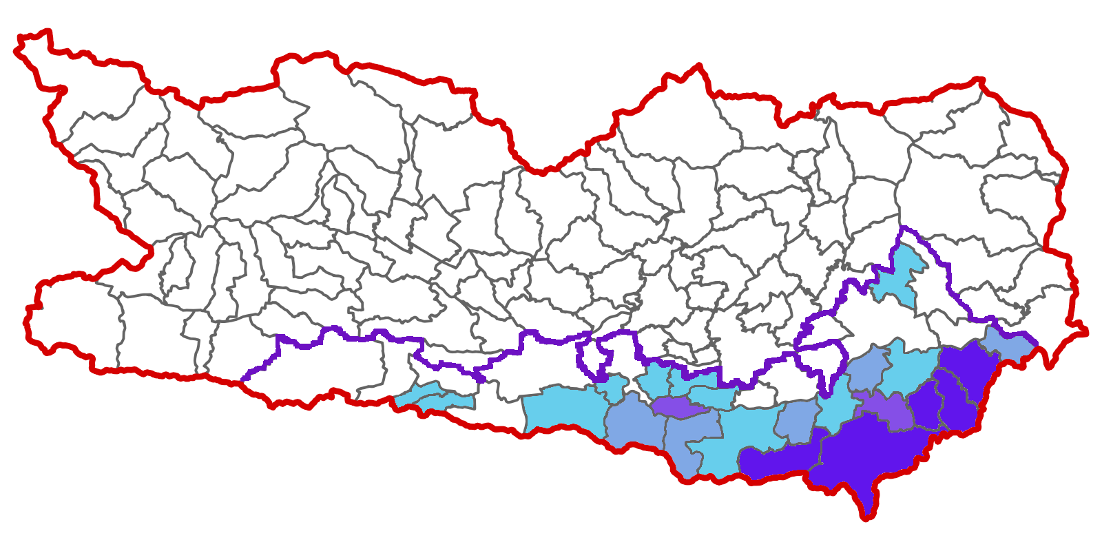 Proportion of Carinthian Slovenes on a municipality level according to the 2001 National Census. The blue borderline indicates the traditional settlement area of Carinthian Slovenes (i.e. those communities which are required by law to offer bilingual classes in elementary schools).